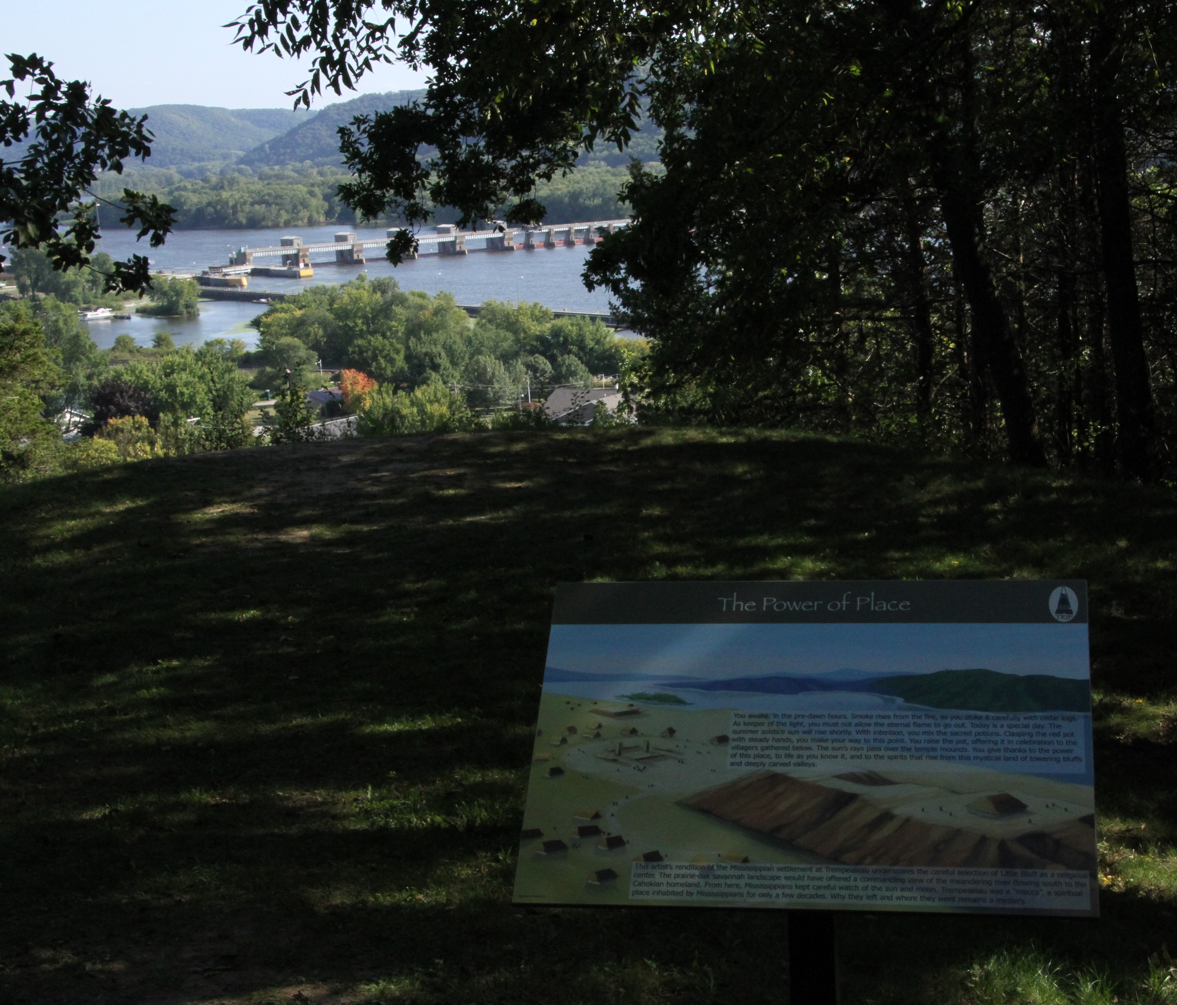 Trempealeau Platform Mounds Site at the eastern extremity of the Trempealeau Bluffs, with a view in the background of the Mississippi River at Trempealeau, Wisconsin, U.S.A